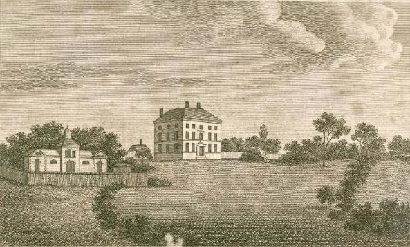 "Tapton Hall, Derbyshire". Engraving, 18th.c., published in Lysons Magna Britannia, 1817. in 1638 the lordship of Tapton with a capital messuage known as Tapton Hall was sold by Durant Allsopp and Thomas Allsopp, gents, of Chesterfield (Durant House, Holy Well st) to George Taylor of London, Vintner, with closes (fields) at Brimington with several other properties including Durant Hall. See Derbyshire Record Office D135/M/T/1 17 Feb 1637/8 [1] Bargain and sale by Durant Allsopp and Thomas Allsopp of Chesterfield, gents. to George Taylor of London, vintner, in consideration of £2,100, of the manor and lordship of Tapton, a capital messuage known as Tapton Hall, closes called the Croft, Broome Close, Woodclose, Woodmeadowe, Peaserclose, the Pingles, Little Coaterclose, Castleclose Pennyleyes, Little Lady Leys, Goulden Cliffes, 2 lands in Silverice, 1a in Balme Oak Close, closes called Ouldfields, 2 messuages and a close at Hill Topp, Brimington a cottage and 4a land in the Intake, a cottage and 1a land near Ouldfeilde, a cottage in Ouldfeilde, a cottage near Tapton Hall, and a cottage and garden in the Blakepitte, with a capital messuage at Chesterfield known as Durant Hall with closes known as Crofte and Durant Meadowe